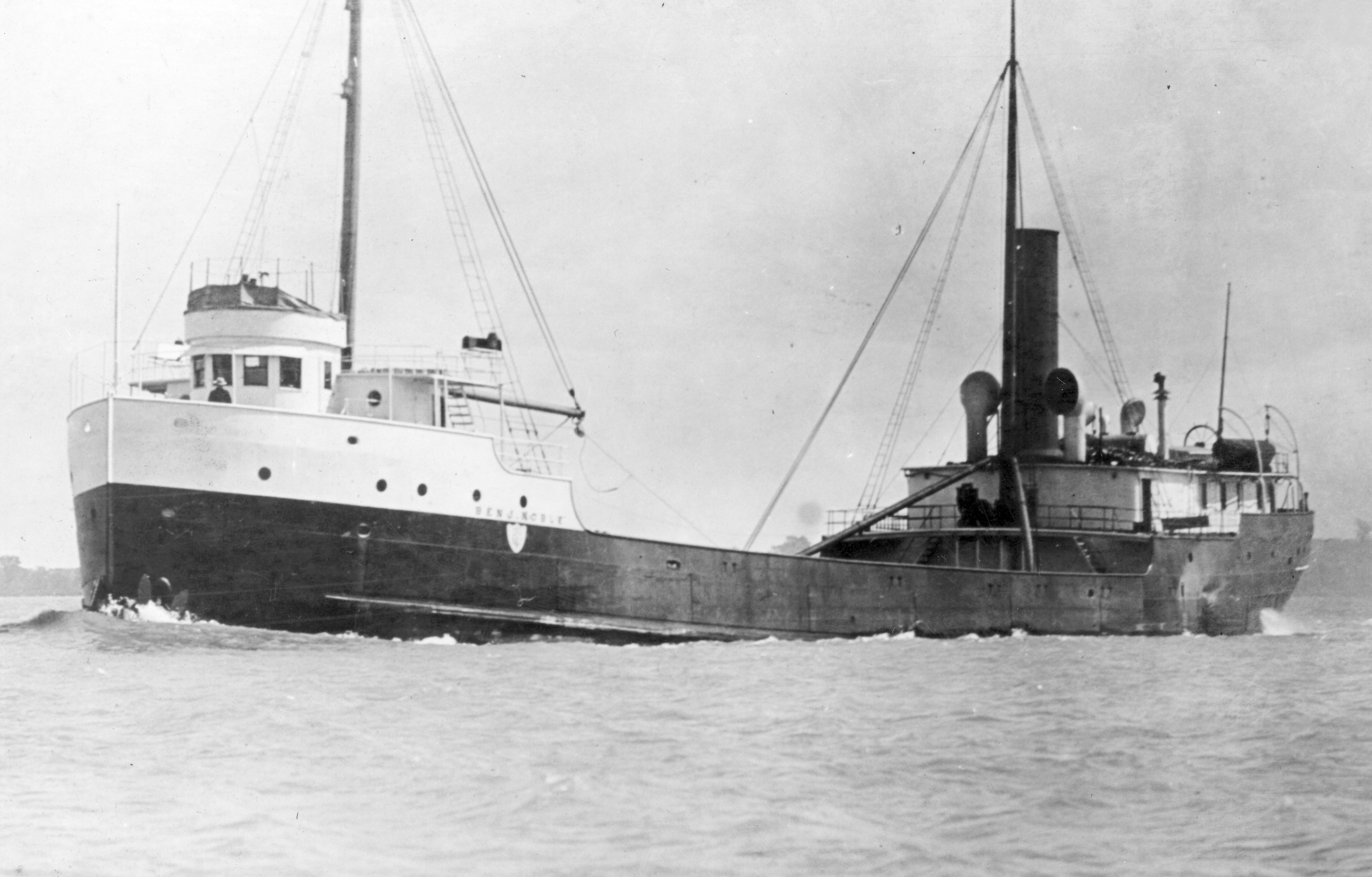 The Benj. Noble underway